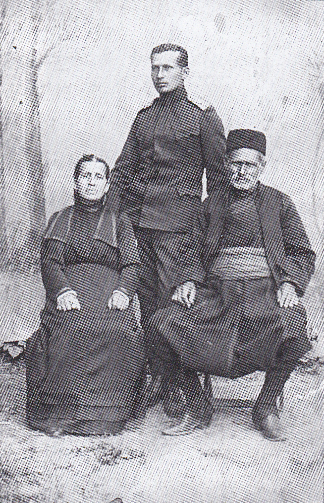 Petar Shandanov as officer